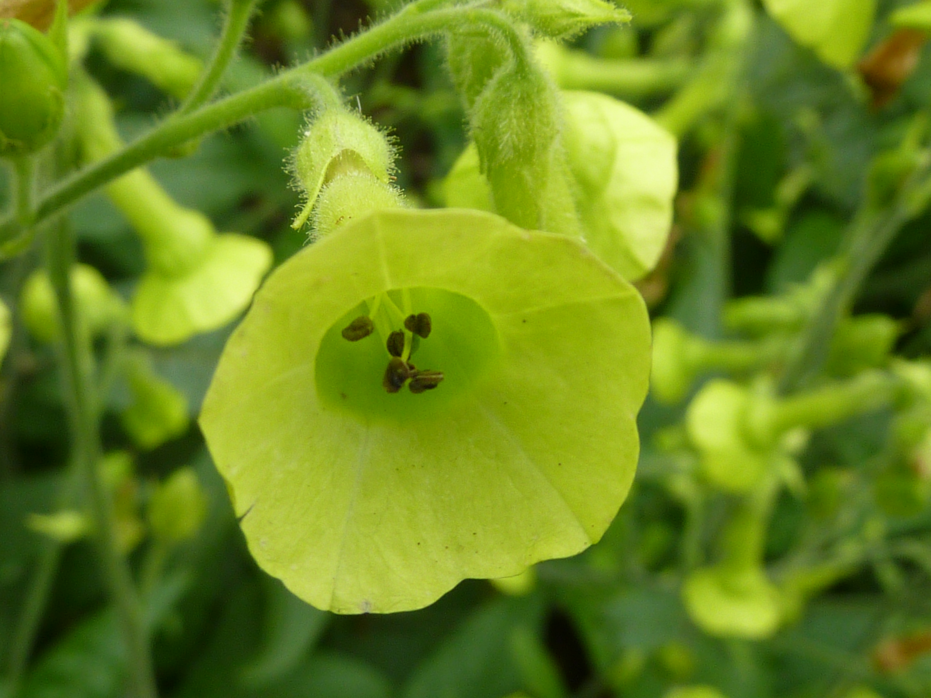 Nicotiana langsdorffii, Cambridge University Botanic Garden